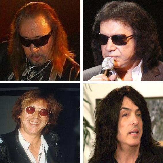 Ace Frehley, Gene Simmons, Peter Criss and Paul Stanley. A crop/montage derived from images with Creative Commons licences on Wiki Commons.